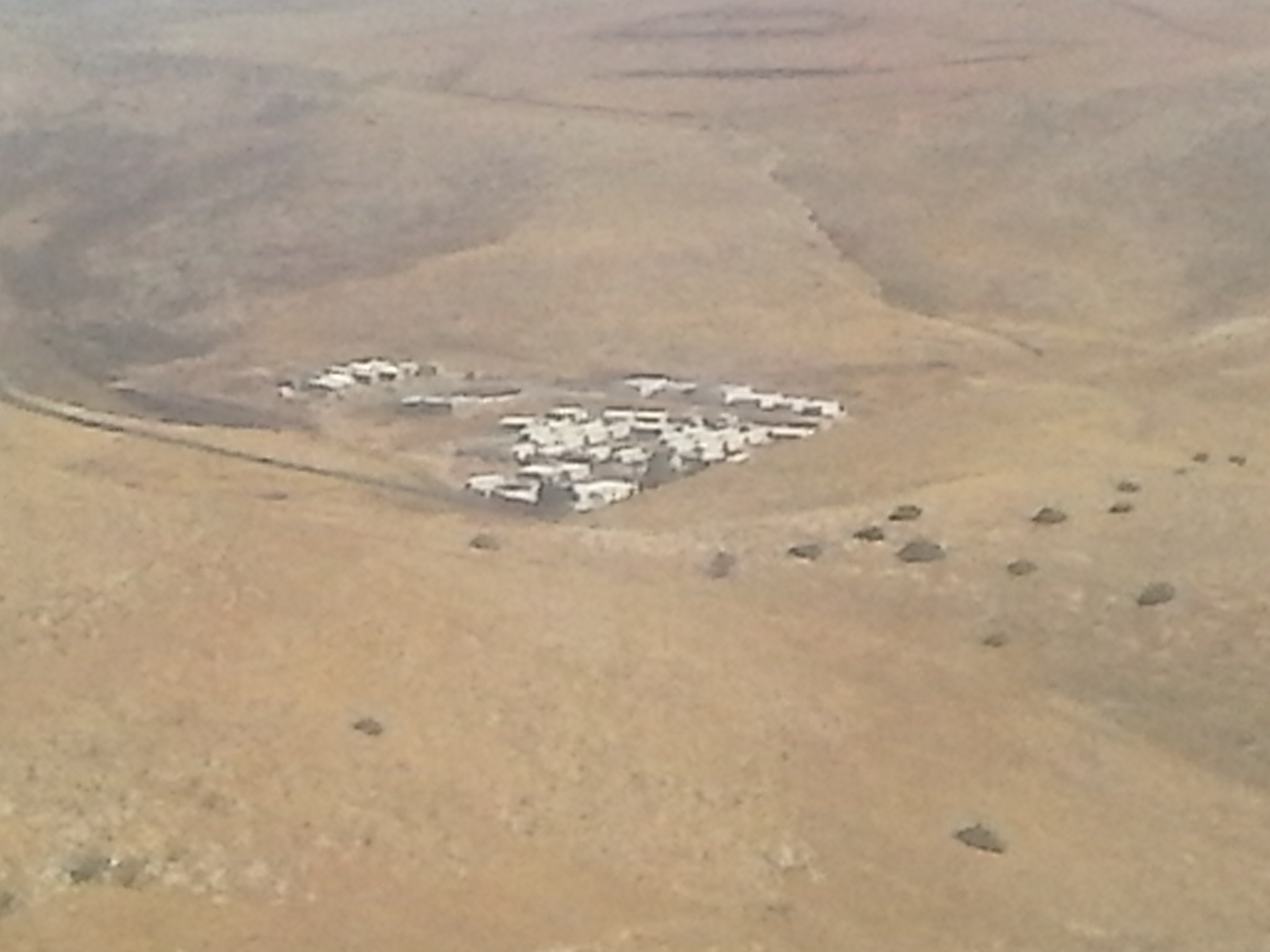 Peles base.